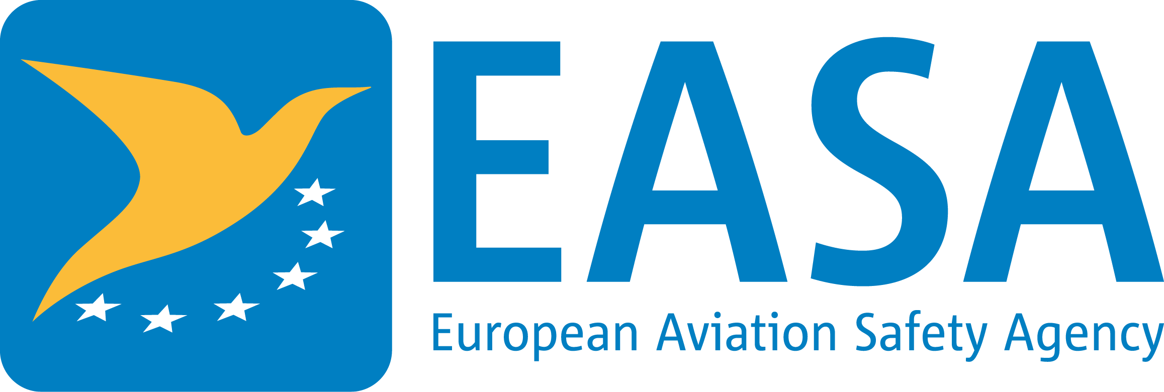 The official logo of the European Aviation Safety Agency.